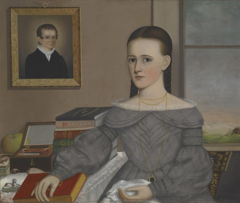 portrait painted postumously of Marie Jane Andrew aged 7, surrounded by her activities and possibly the portrait of an earlier pre-deceased brother